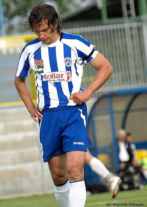 Wigry Suwałki against Swit Nowy Dwor Mazowiecki - season 09/10. Wigry's player - Grazvydas Mikulenas.